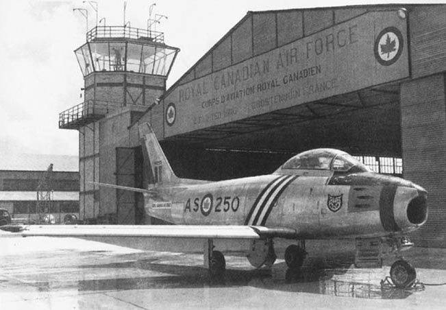 A Mark 5 Canadair Sabre of No. 416 Squadron Royal Canadian Air Force parked on ramp at No. 2 Wing, RCAF Station Grostenquin, France, July, 1953.